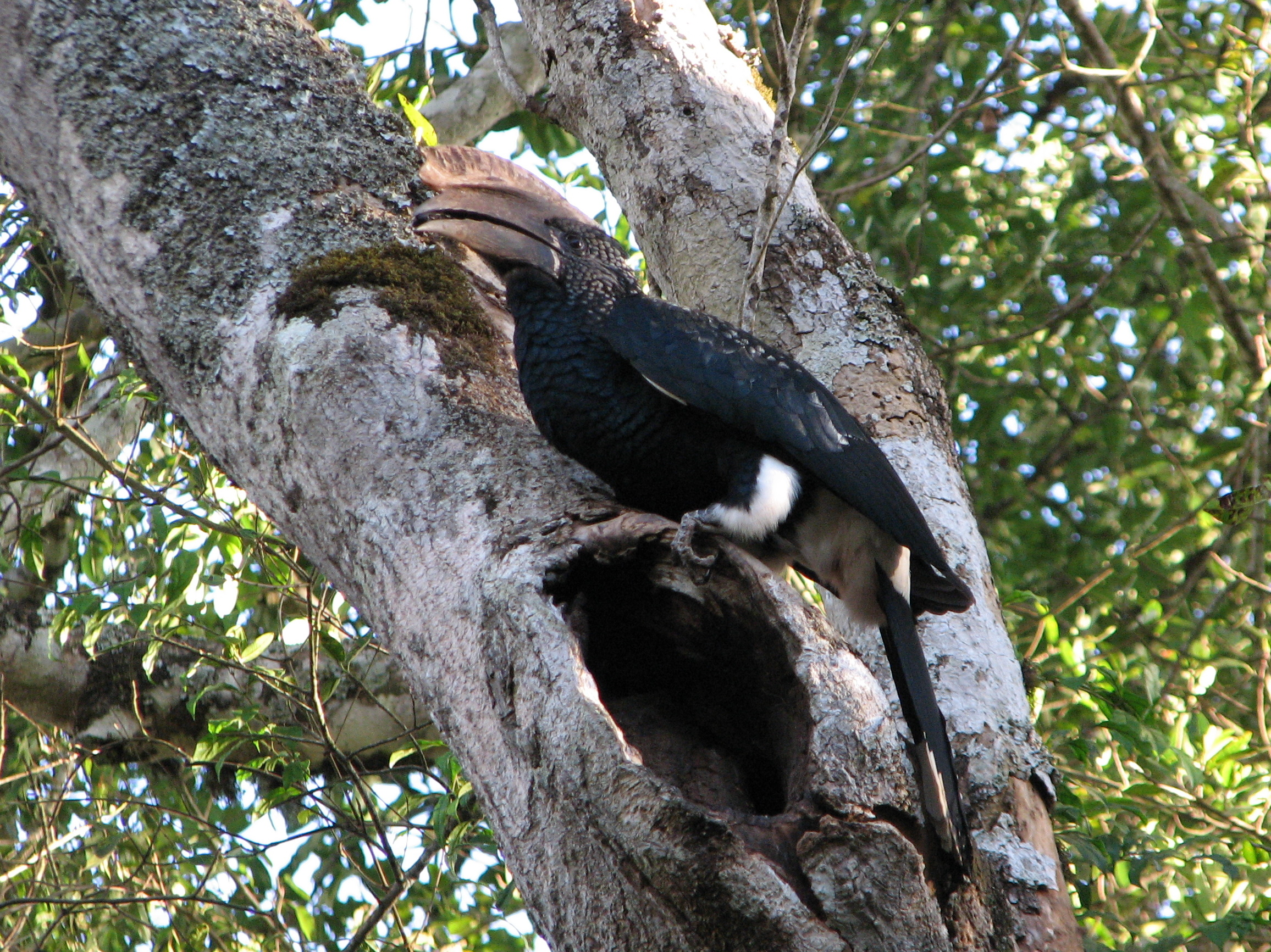 Male Silvery-cheeked Hornbill (Bycanistes brevis) feeding, Arusha National Park, Tanzania